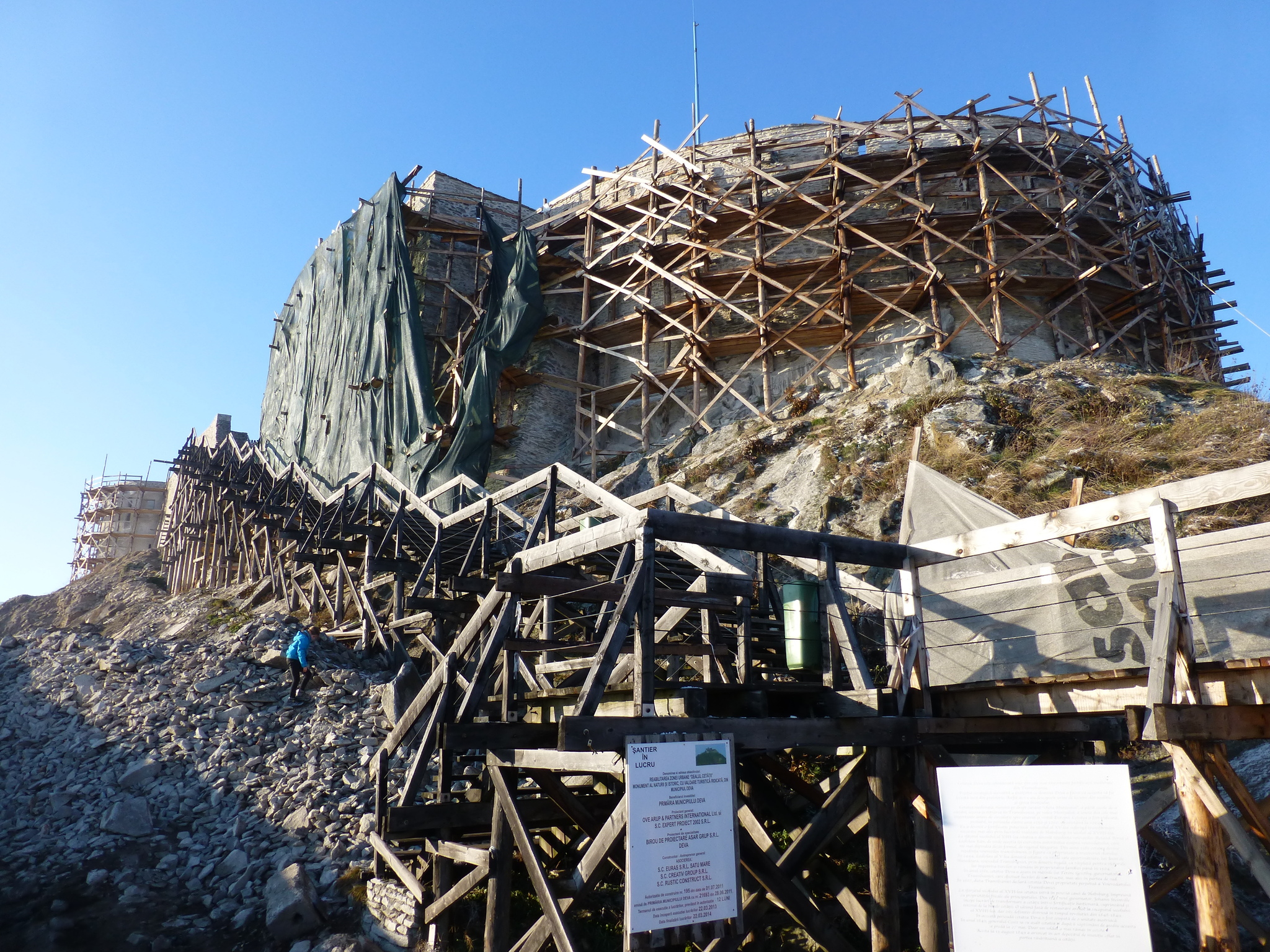 Restoration Work on Deva Fortress December 2013